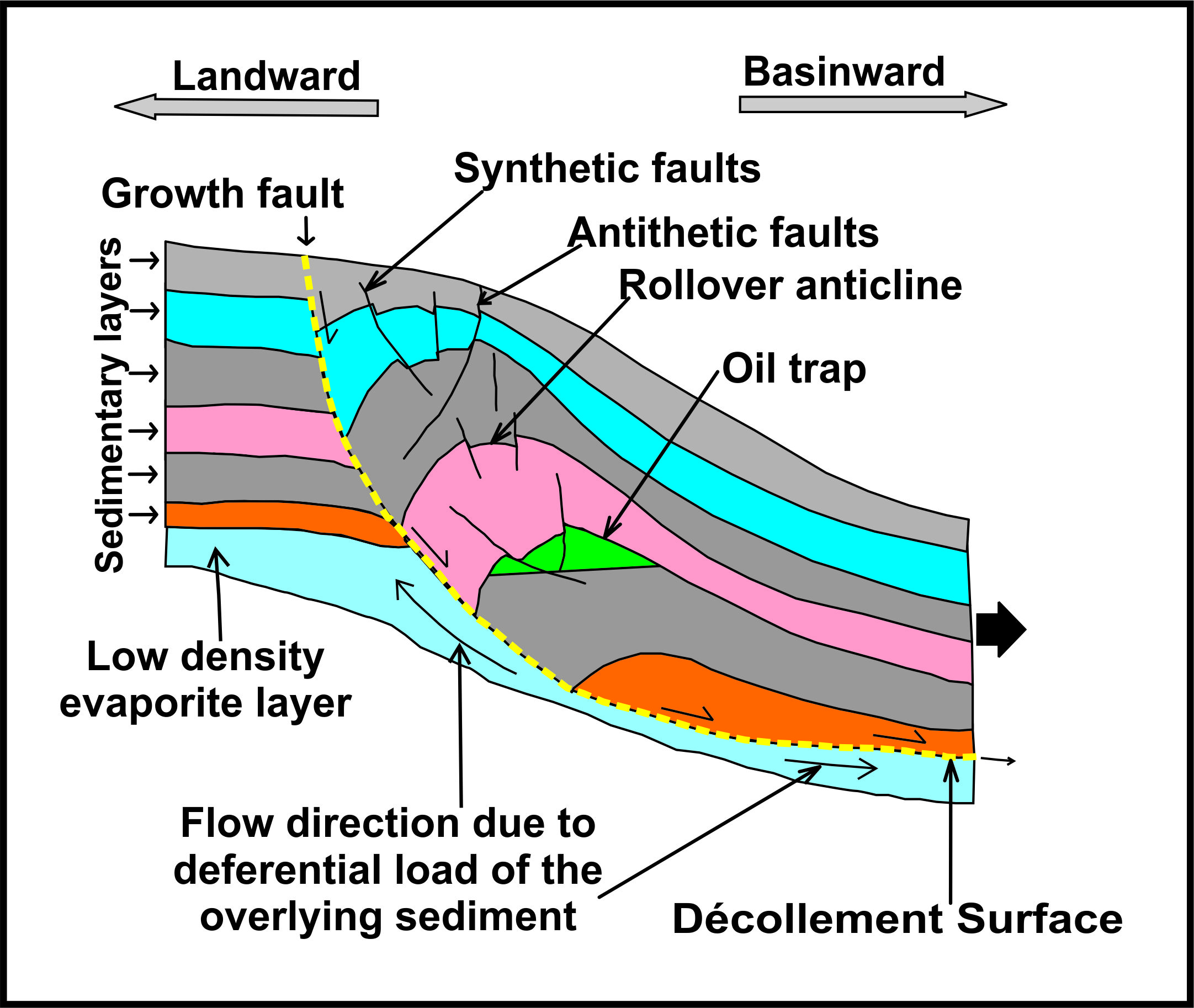 Fig 1 Emad final thin boundary1